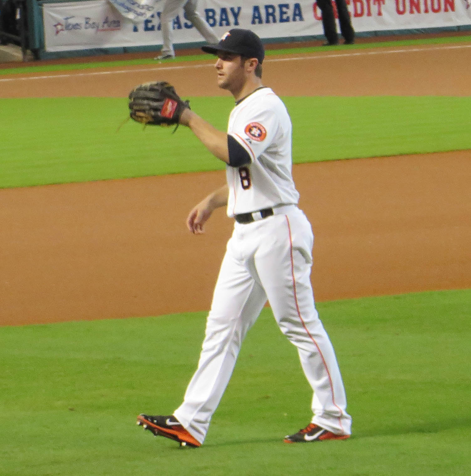 Houston Astros outfielder prepares to catch a baseball during warmups for a game against the New York Yankees on September 29, 2013.